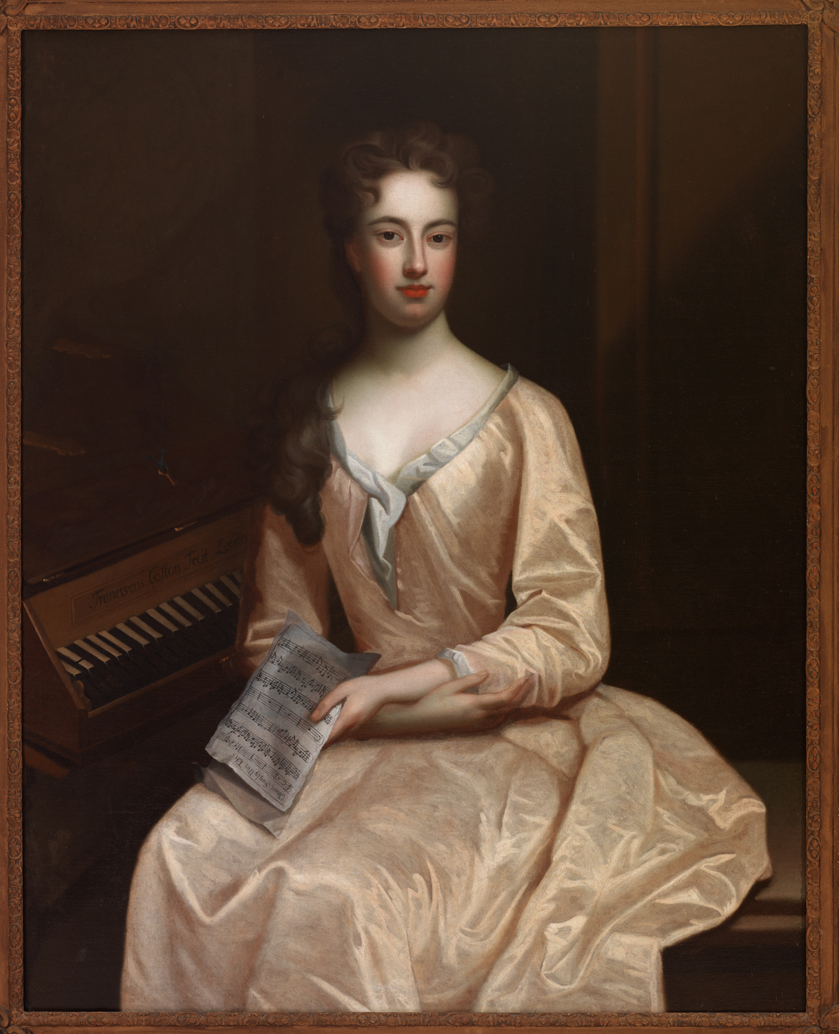 TERESA BLOUNT (1691-1761)